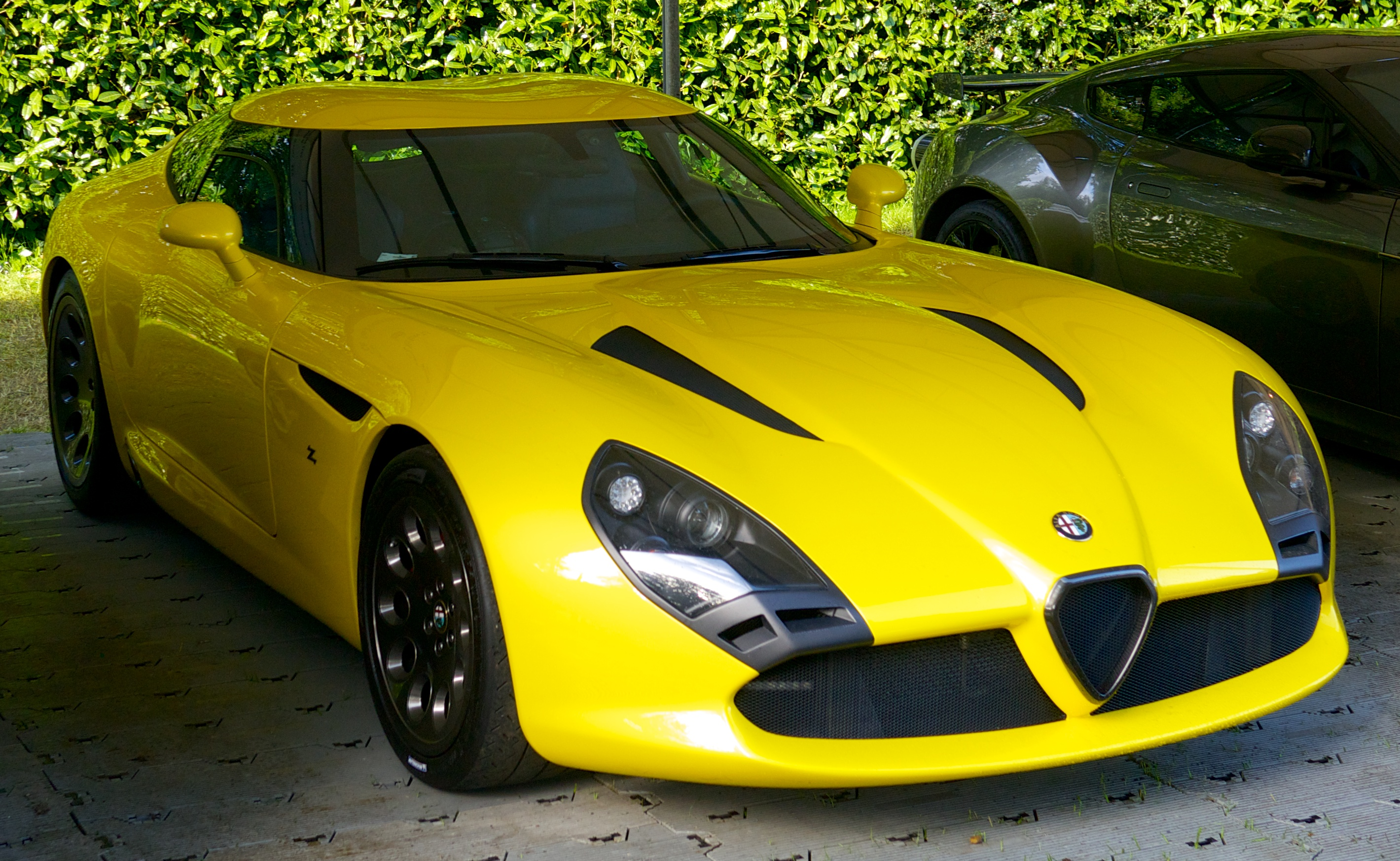 2012 Alfa Romeo TZ3 Zagato Stradale. Photograph taken at Goodwood Festival of Speed 2012.